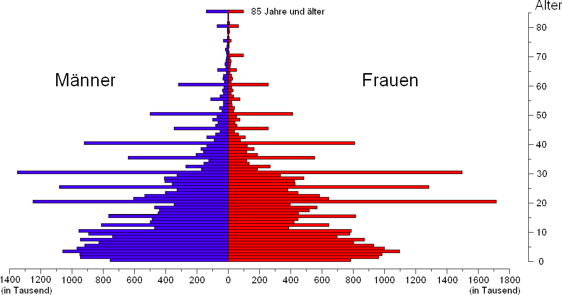 population pyramid of Nigeria after the census in 1963